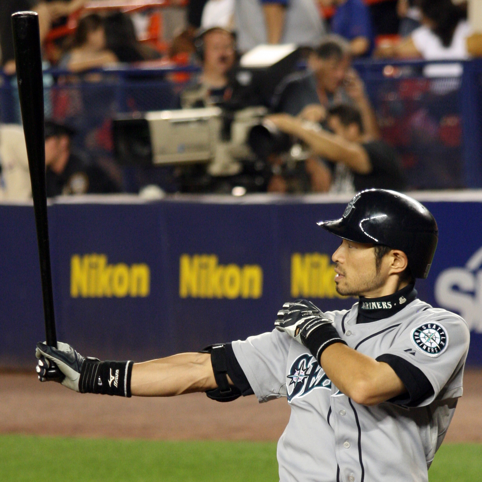 6/25/08 Seattle Mariners @ New York Mets. Ichiro Suzuki performs his batting ritual.